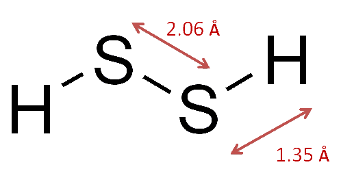 chemical structure of hydrogen disulfide (disulphide) with bond lengths